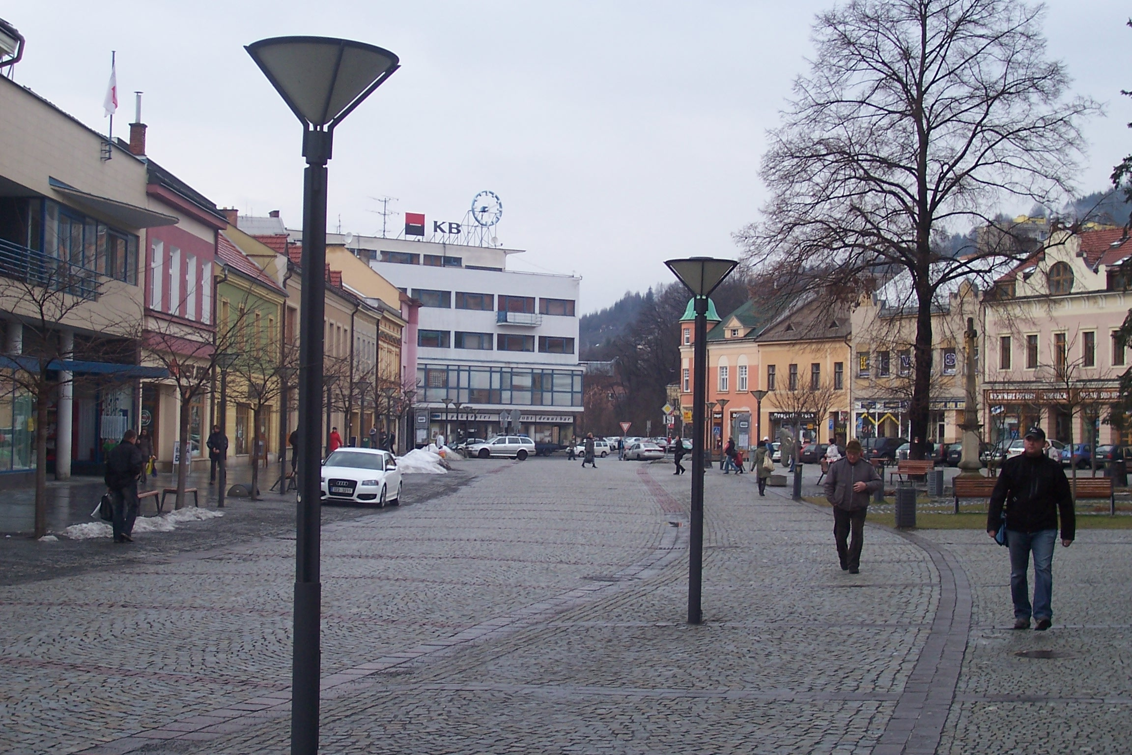 Vsetín, Czech Republic.Dolní náměstí-square.